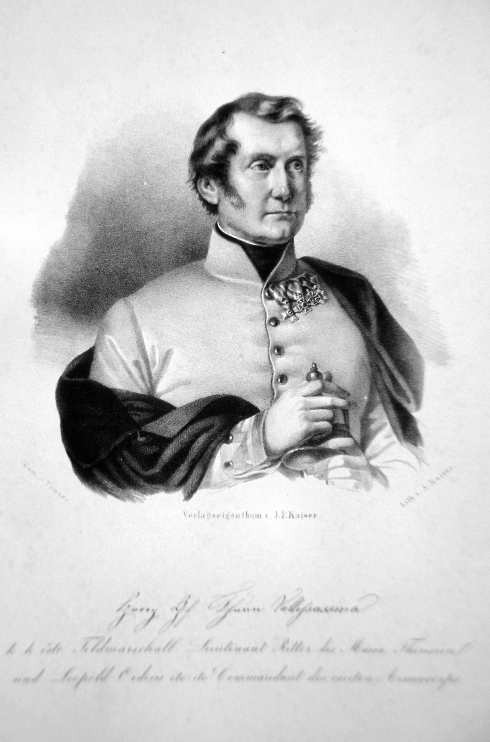 Georg Graf Thurn-Valsassina 1788-1866), als Feldmarschallleutnant. Lithographie von Alexander Kaiser, um 1845, nach einem Gemälde von Josef Ernst Tunner